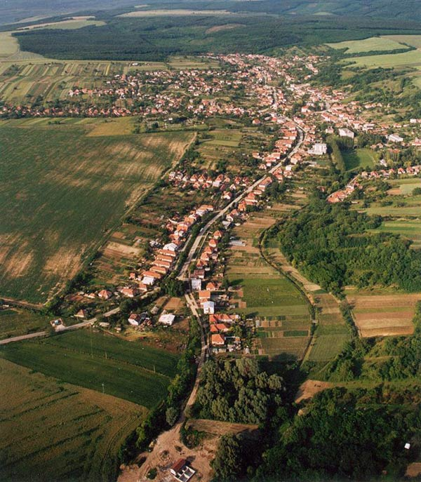 Aerial photography of the Slovakian village Veľké Lovce in Nové Zámky district.